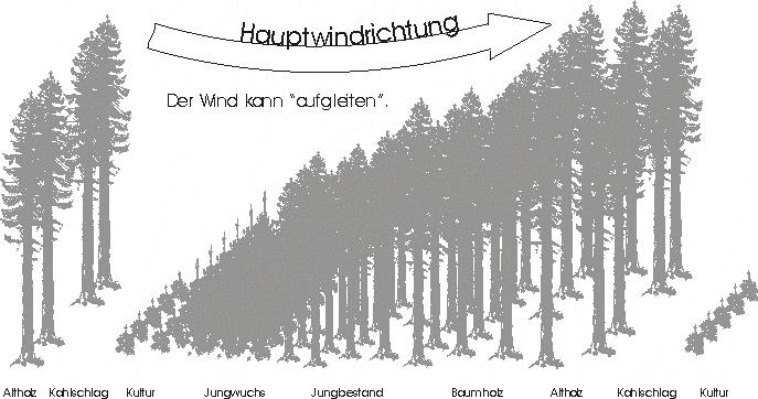 Cutting-system called "Hiebszug" (from west to east sections of higher Trees).